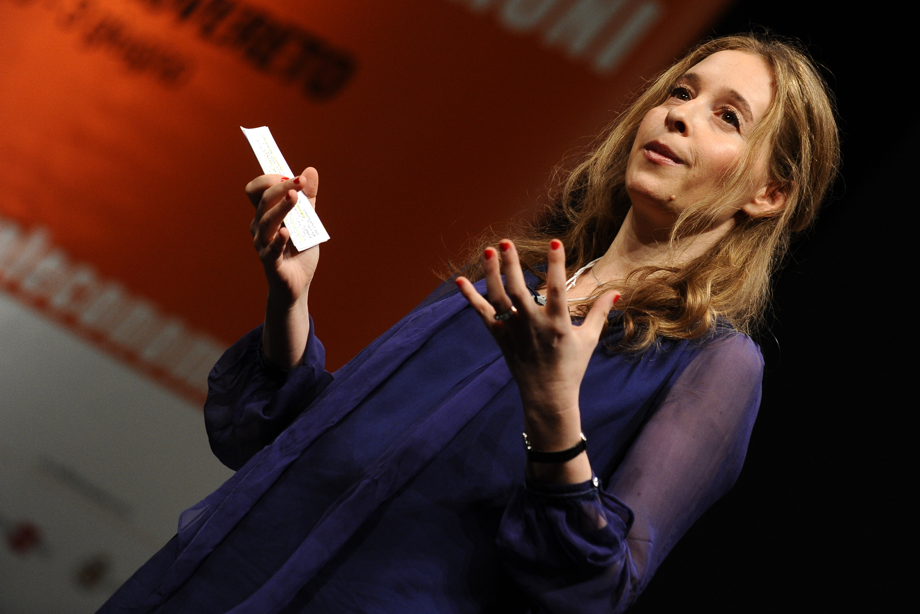 Festival of Economics 2012 - Trento